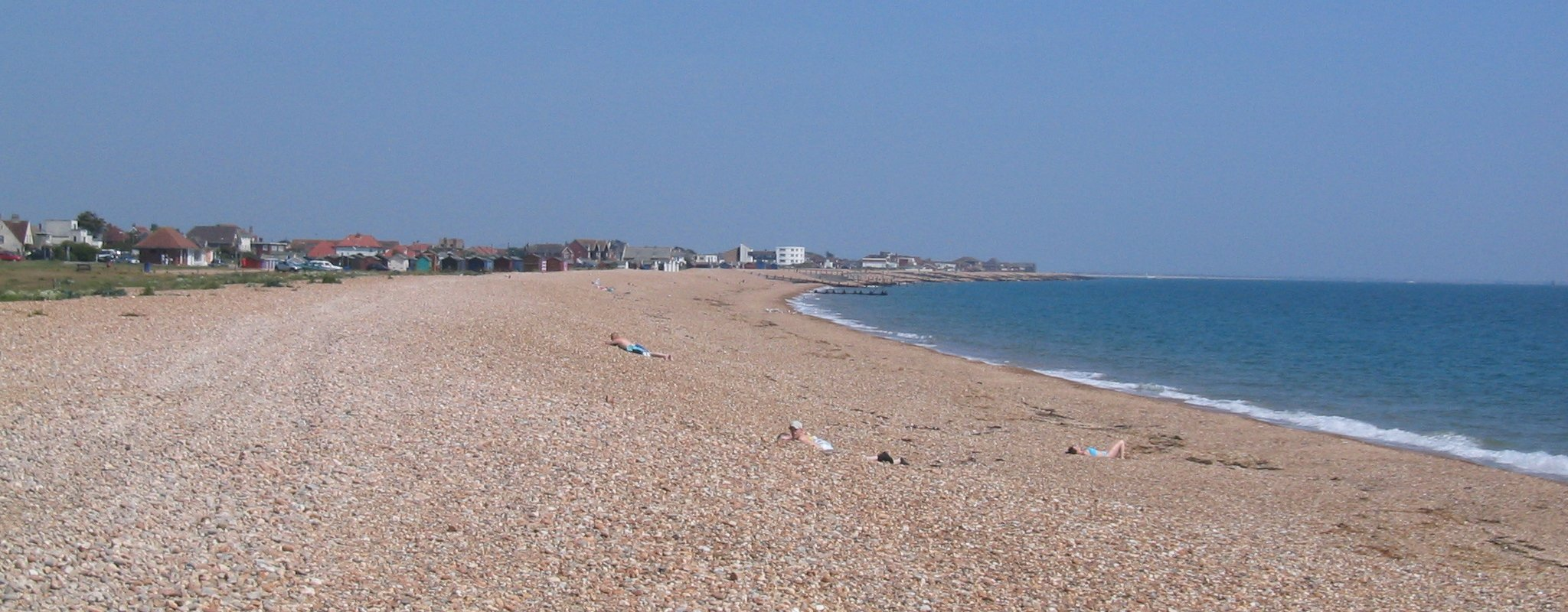 Beaches at Hayling Island, UK. Photo taken by me 2005-06-09.